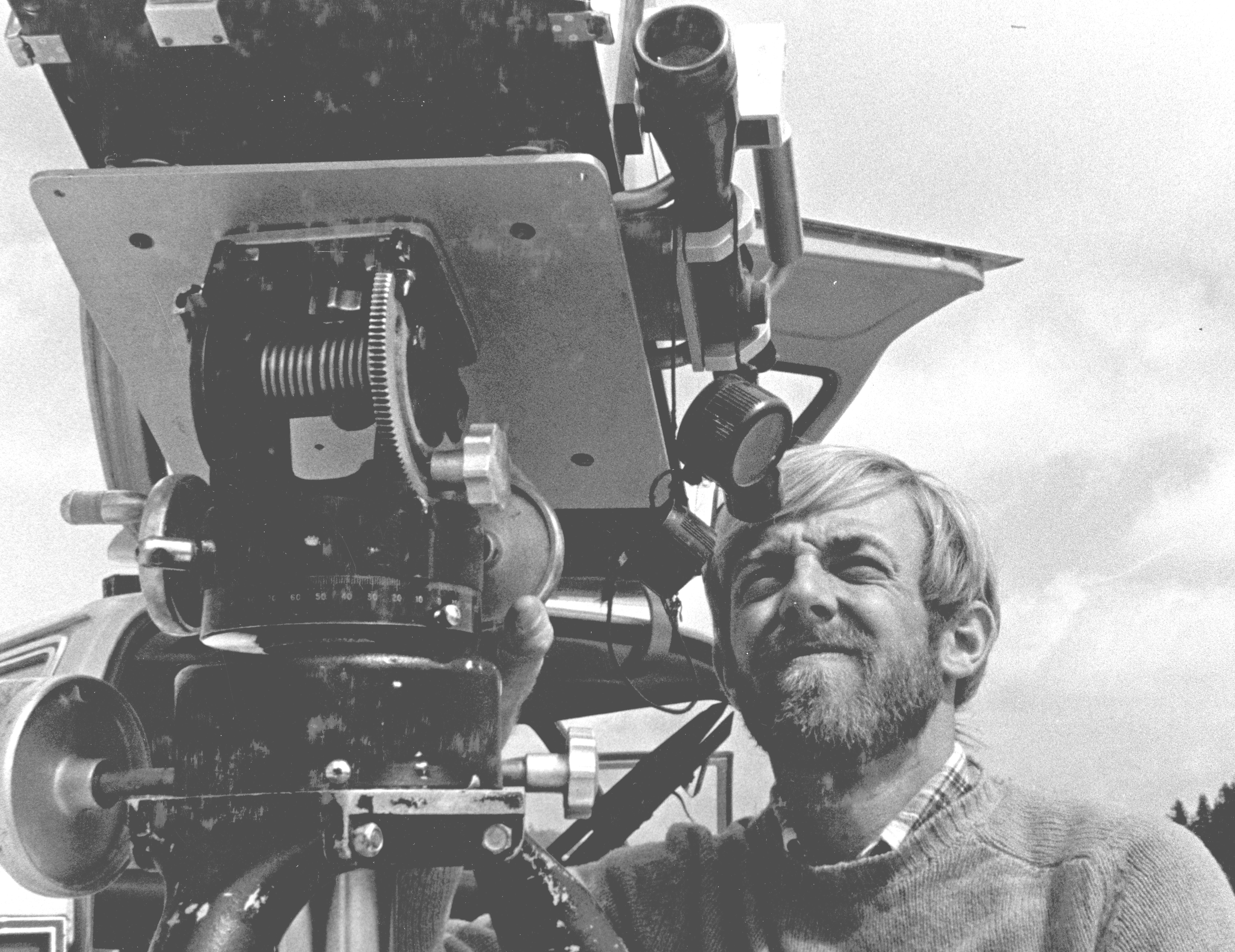 Geologist Dave Johnston with gas-detection instrument at Mount St. Helens. Skamania County, Washington. April 4, 1980.